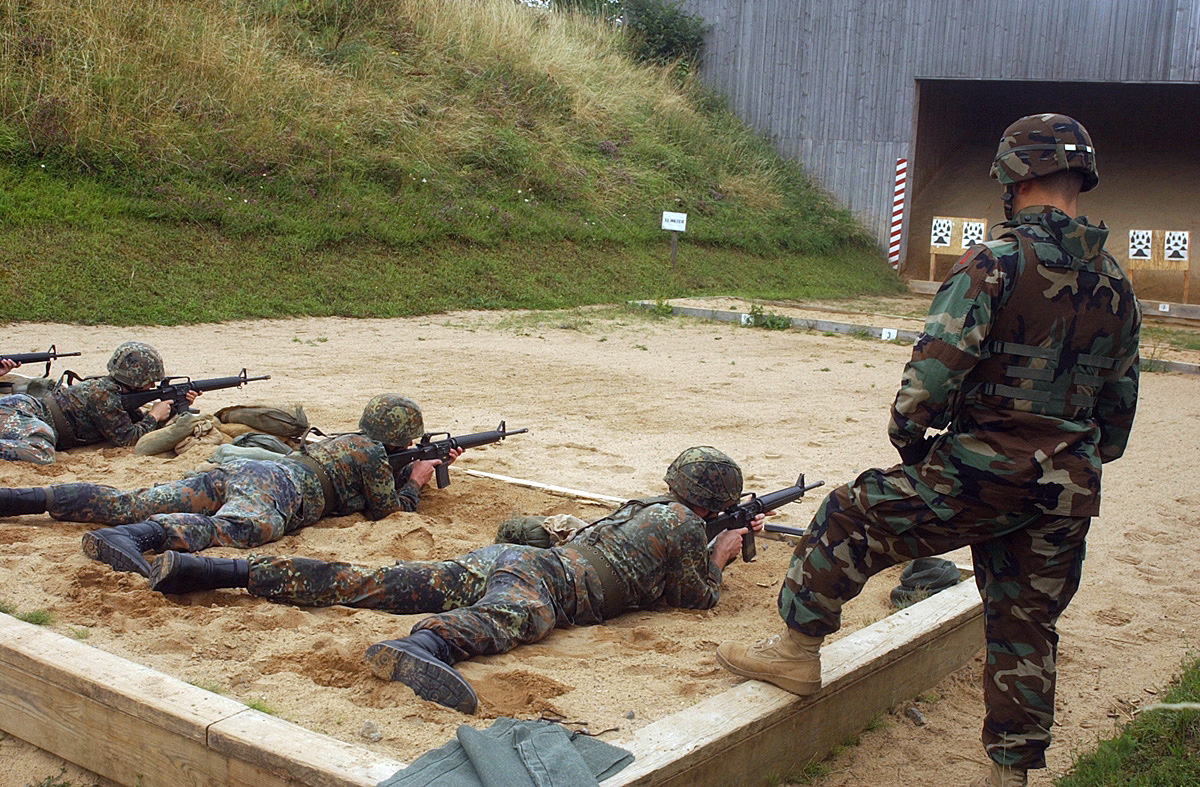 German Soldiers from 13th Panzer Division attempt to qualify on M-16A2 rifles as part of a partnership range between Headquarters and Headquarters Company, 1st Infantry Division and 13th Panzer Division in Würzburg Aug. 9. Looking on is Sgt. Nickolas Thorntonn, HHC 1st ID signal support NCO.